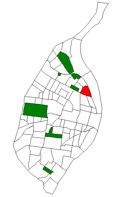 Map of St. Louis Neighborhood #65 (Hyde Park)